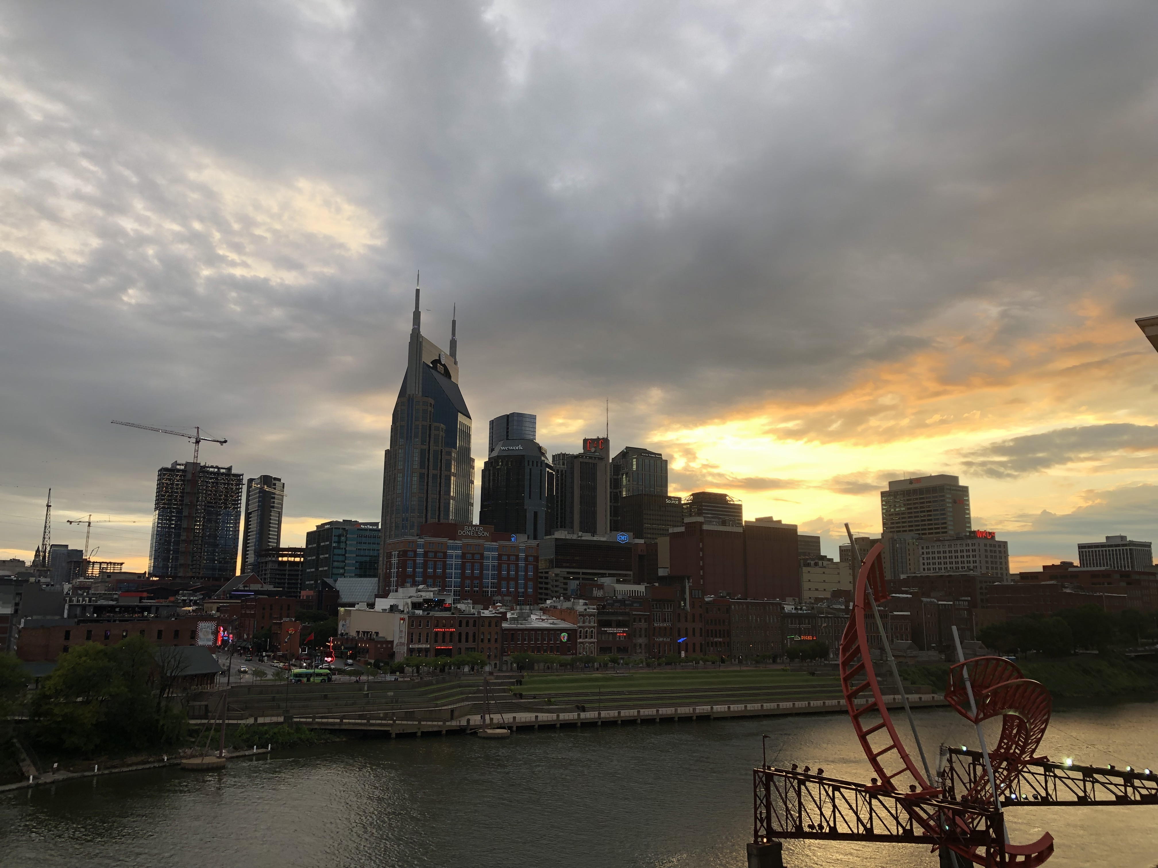 The Nashville skyline, Broadway Avenue, and Cumberland River as seen from Alcie Aycock's Ghost Ballet